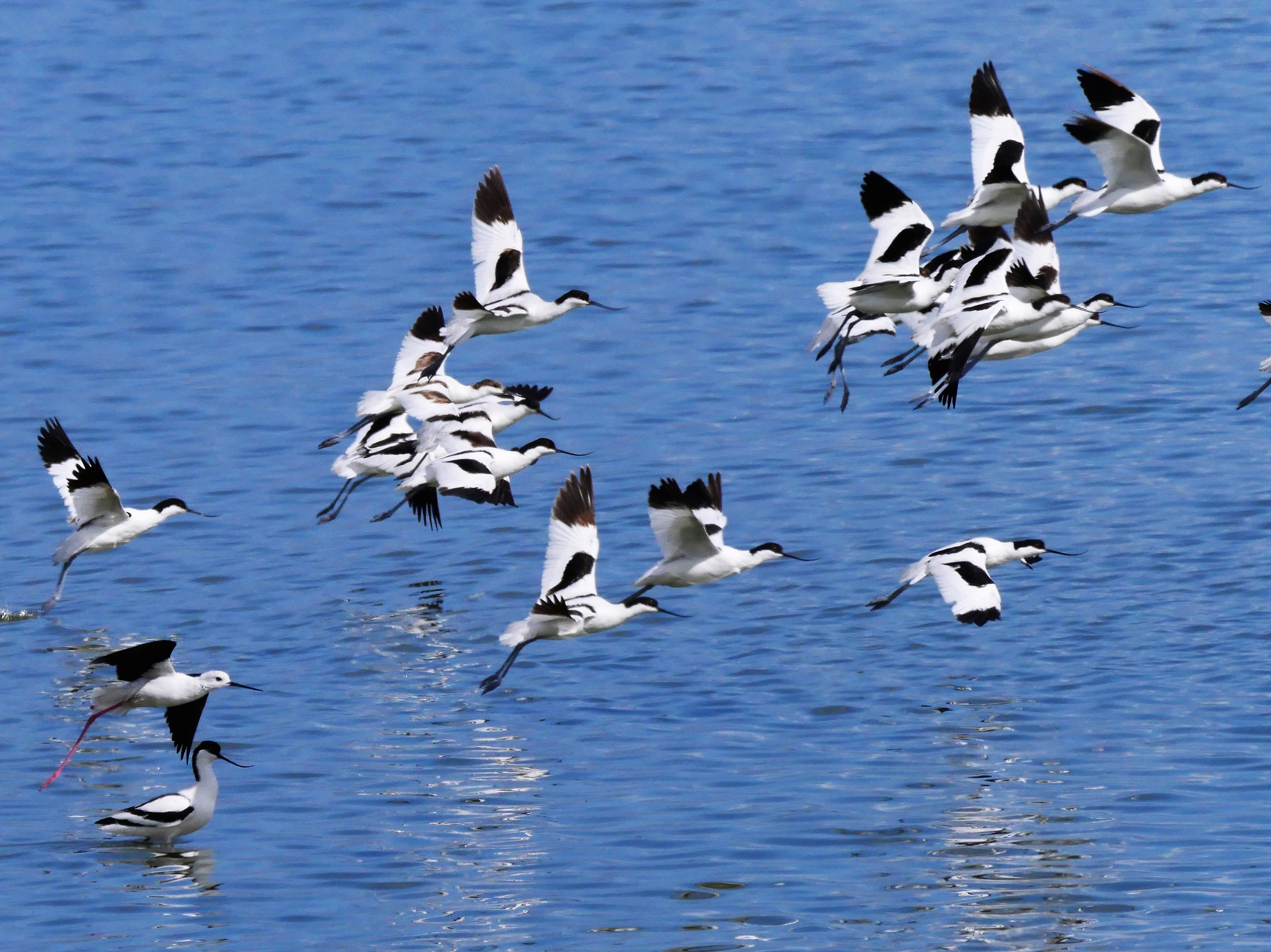 Avocets Take Flight